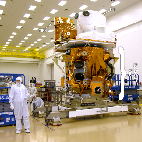 Both Landsat Data Continuity Mission (LDCM) instruments have been mounted to the spacecraft at Orbital Science Corp. in Gilbert Arizona. In this photograph the Thermal Infrared Sensor (TIRS) and the Operational Land Imager (OLI) can be seen in their payload positions on the LDCM spacecraft at the Orbital facility where the spacecraft integration is ongoing. TIRS is covered with gold-hued Multi-layer Insulation, and OLI is covered with white Tedlar insulation.